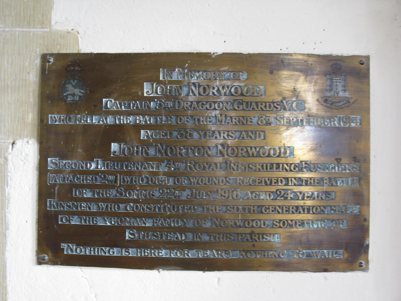 Memorial plaque to John Norwood VC and John Norton Norwood in St Michael's parish church, East Peckham, Kent